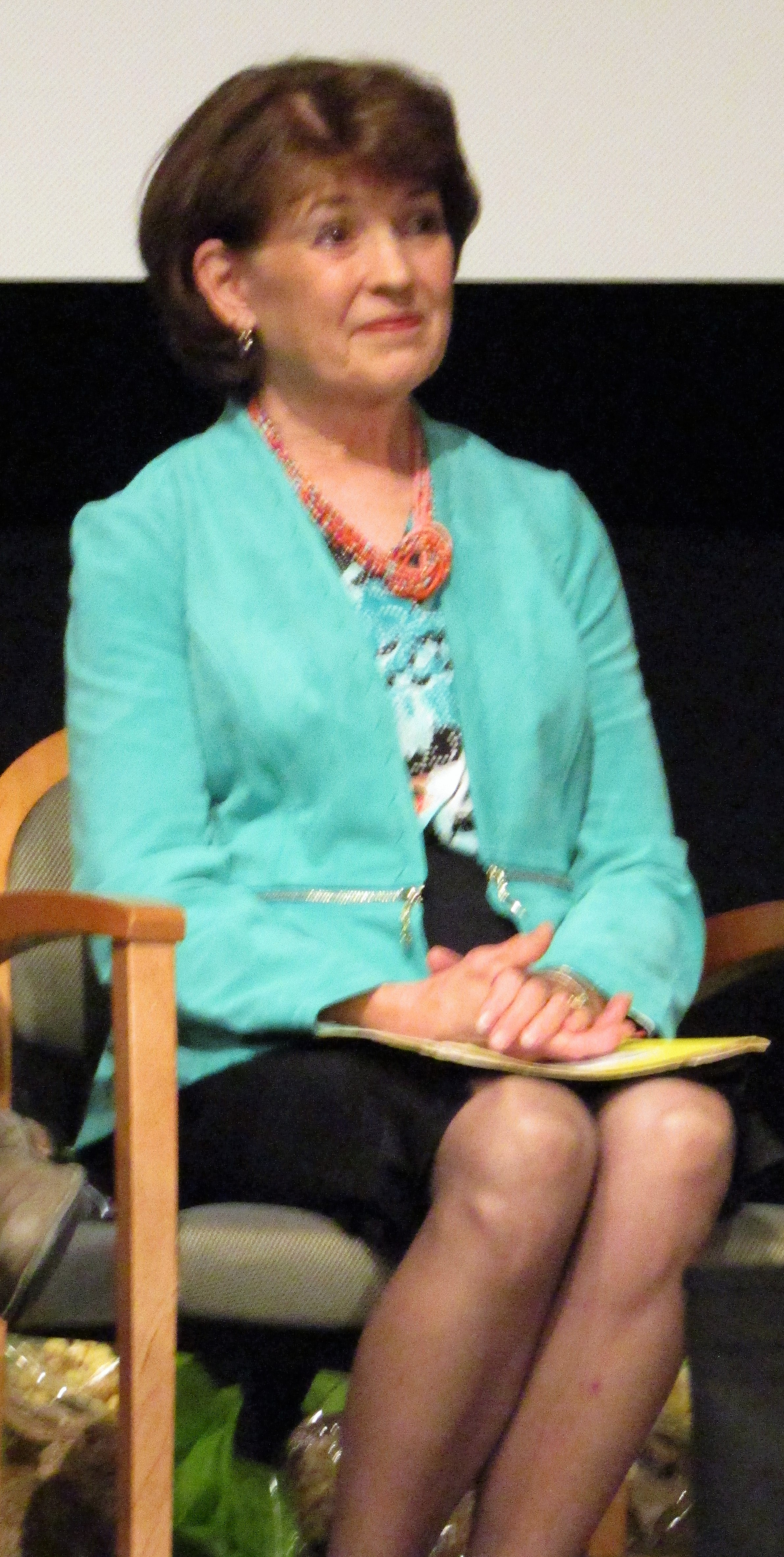 Susan W. Tanner at the BYU Easter Conference.